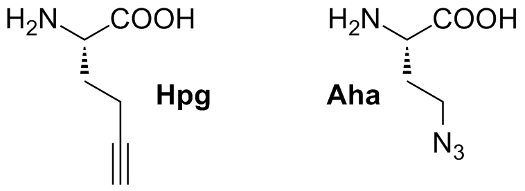 Bioorthogonal Synthetic Aminoacids